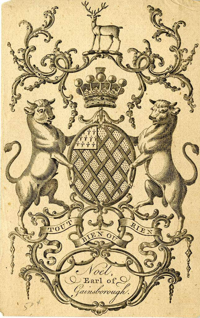 Armorial/Heraldic Bookplates. Subject: Coat of arms; Shields; Animals; Crowns. Subject - Family Name: Noel.